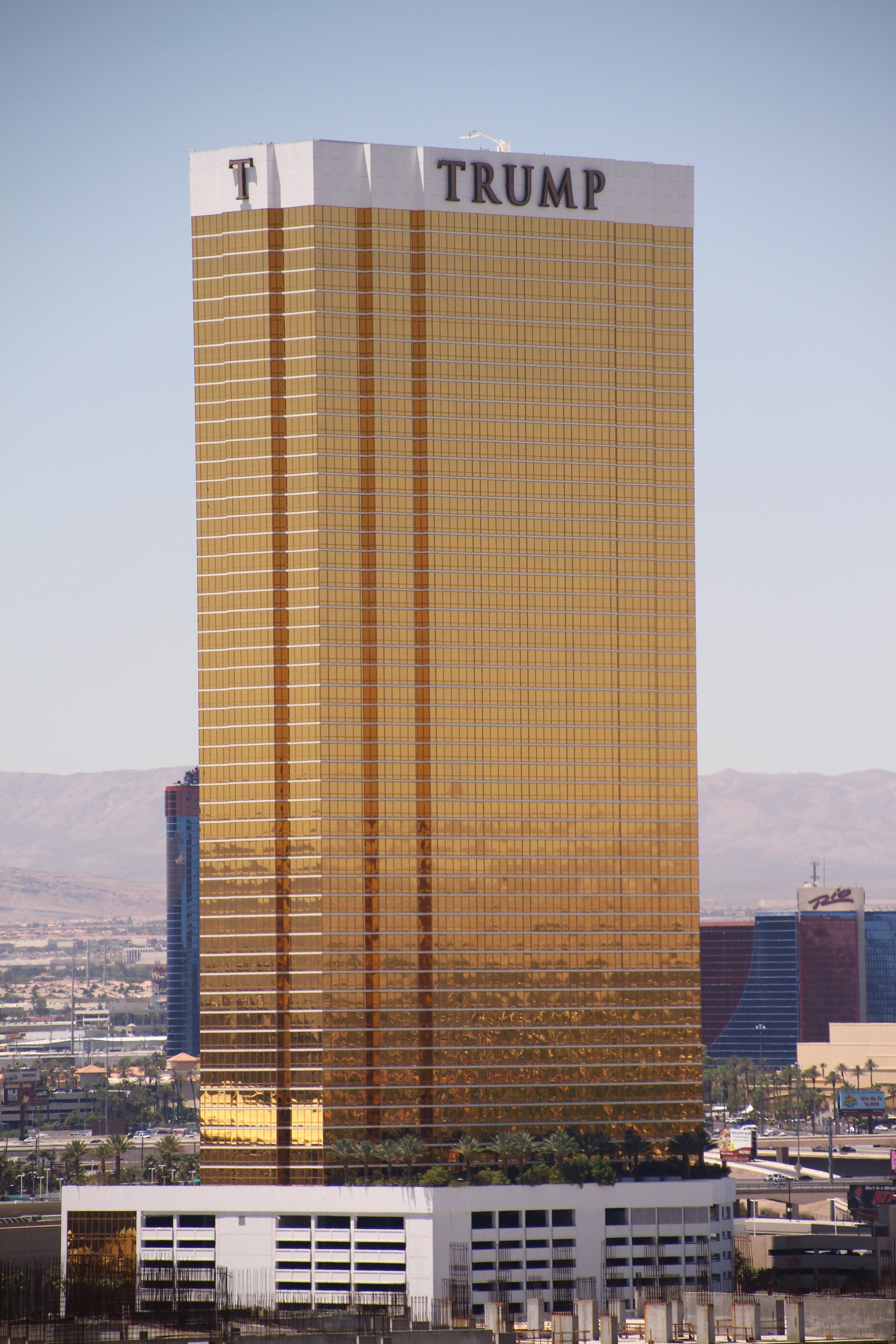 The Trump Hotel in Las Vegas, Nevada.